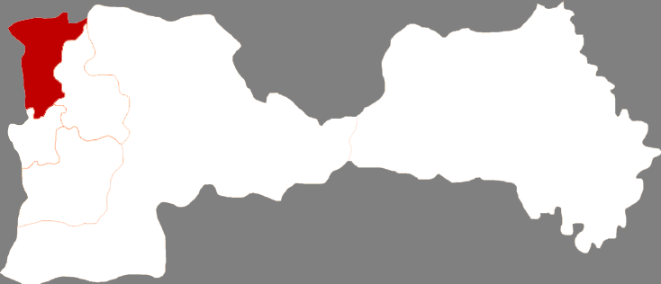 Location of Xihu district in Benxi City, China